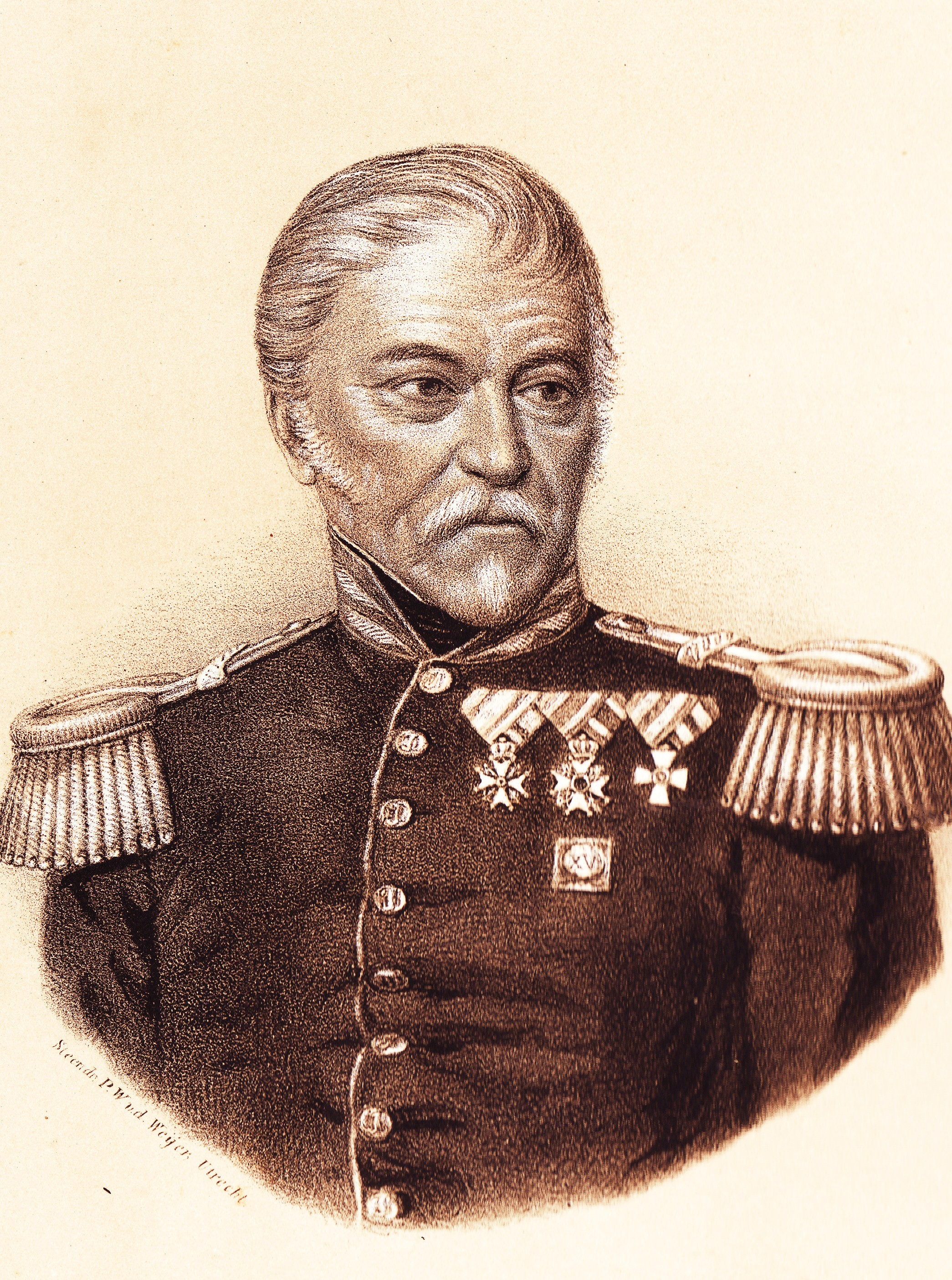 Kolonel Ferdinand Vermeulen Krieger